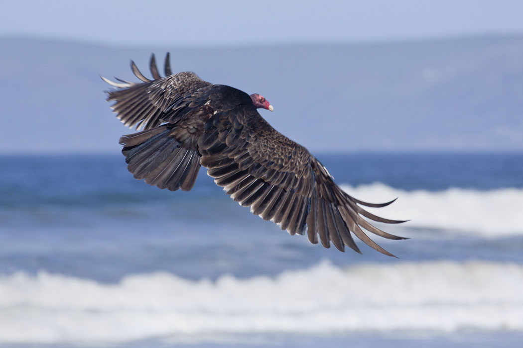 Turkey Vulture (Cathartes aura), over beach, at Morro Bay, California, USA.